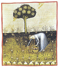 Saffron harvest (from a manuscript of the Tacuinum Sanitatis, 15th century)